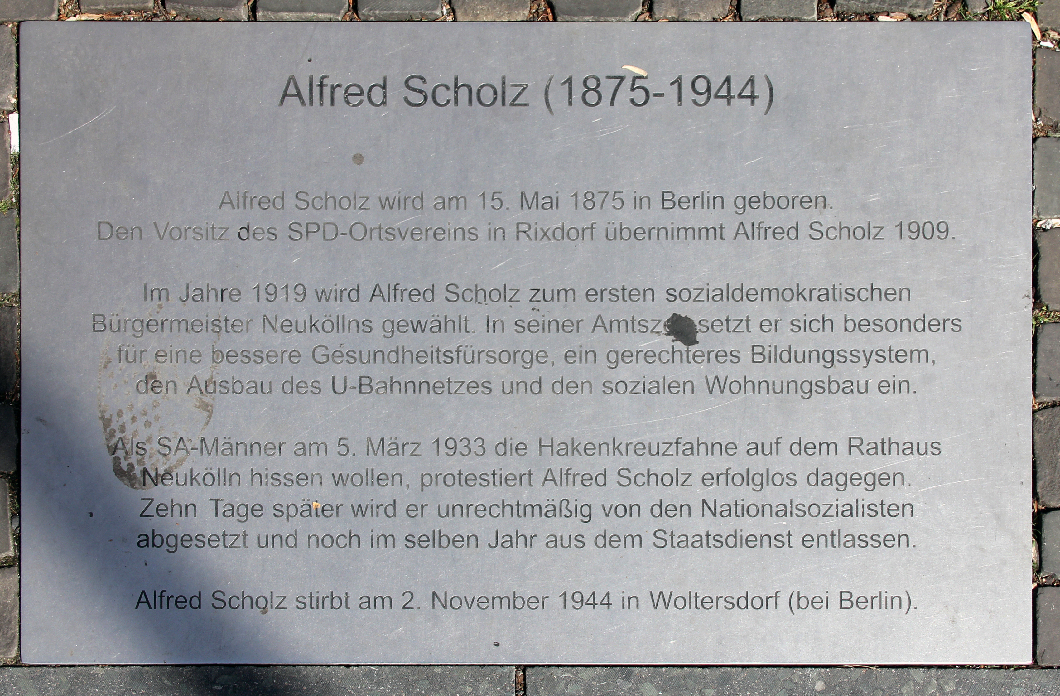 Memorial plaque, Alfred Scholz, Alfred-Scholz-Platz, Berlin-Neukölln, Deutschland